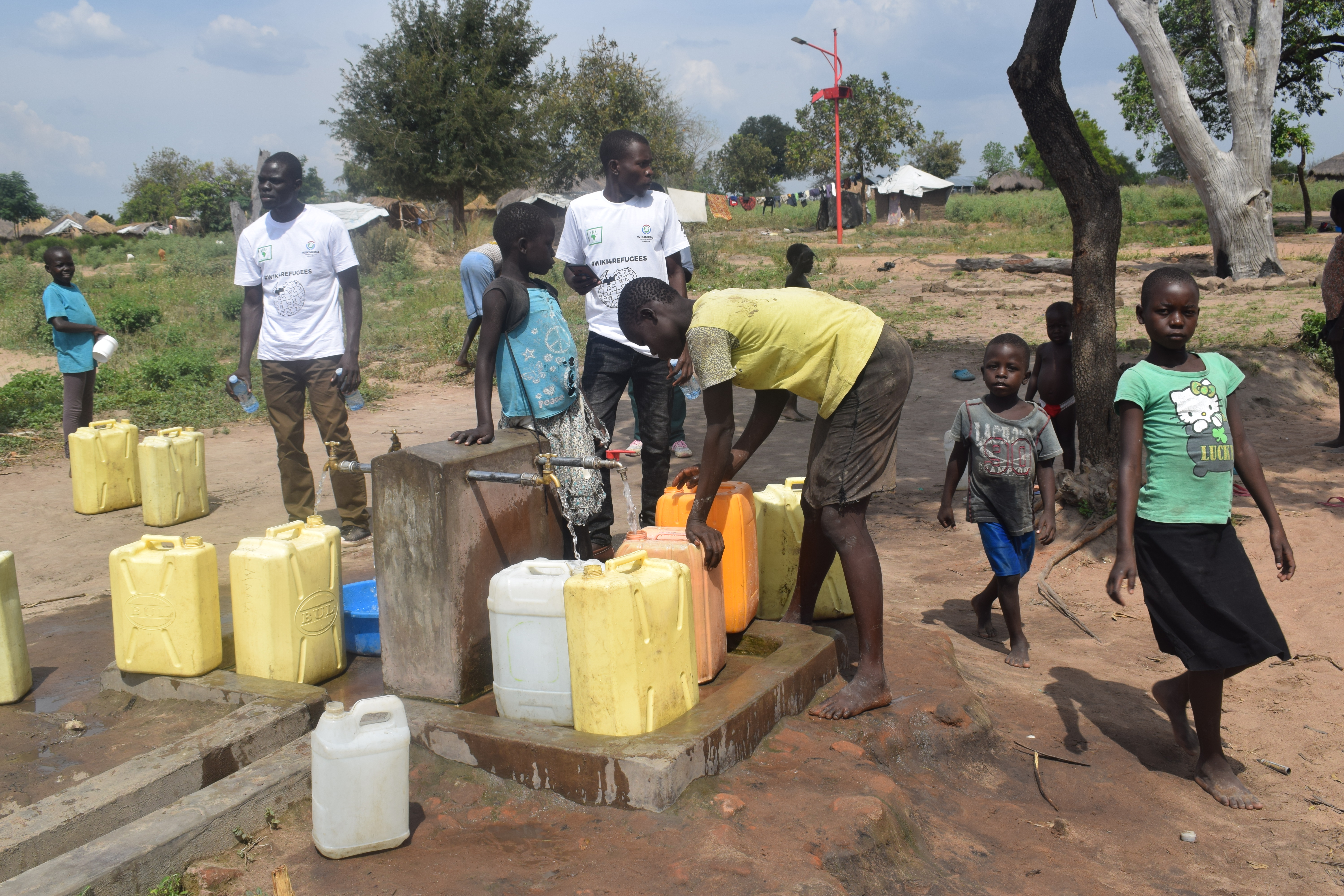 a water point in Rhino camp refugee settlement